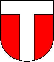 Coat of arms of Münsingen, Canton of Berne, SwitzerlandEsperanto: Blazono de Münsingen, Kantono Berno, Svislando